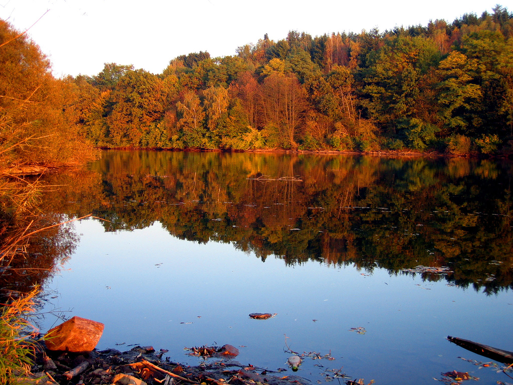 Autumn colours reflected in the tranquil waters of the Kinzigstausee (Kinzig dam) near Bad Soden-Salmünster in Hessen, Germany